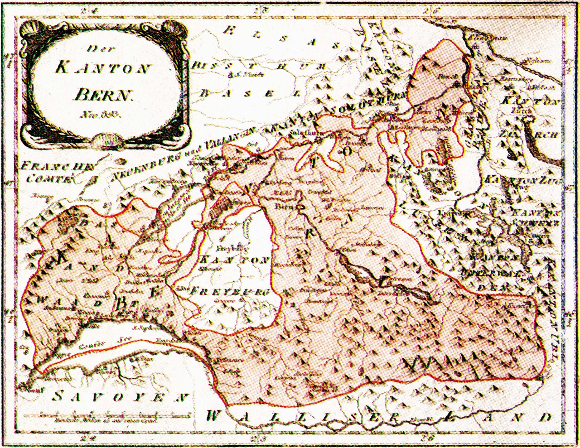 Map of the territory of the Canton of Bern, around 1790.